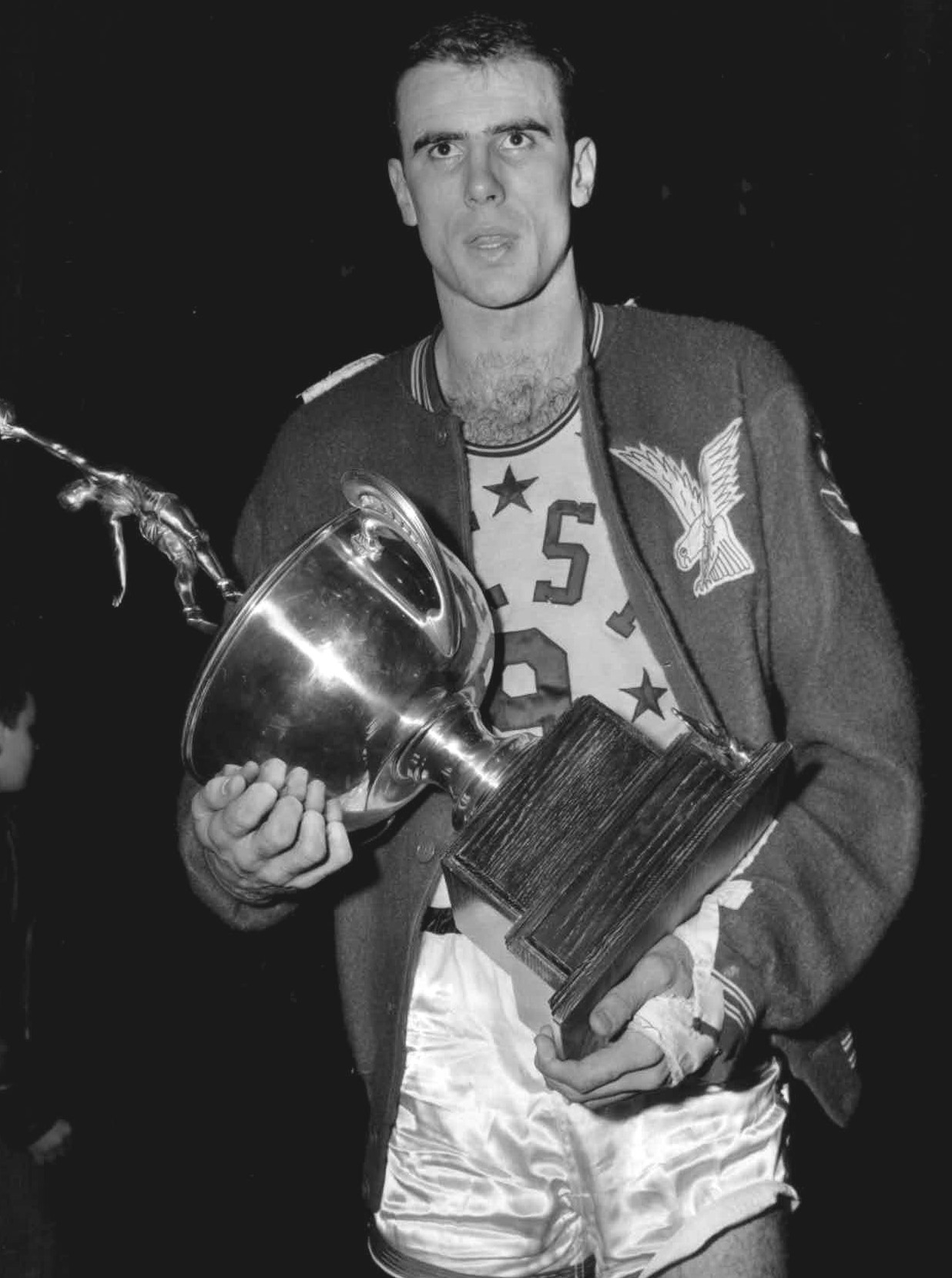 Bob Pettit after being awarded the Most Valuable Player Award in the 1958 NBA All-Star Game.